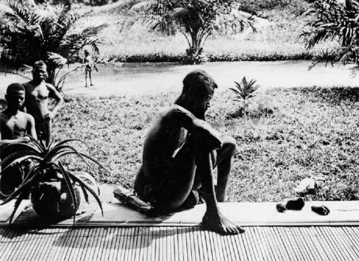 A father stares at the hand and foot of his five year-old daughter, which were severed as a punishment for having harvested too little caoutchouc/rubber. In Belgian colonial Congo Free State (present day Democratic Republic of the Congo).